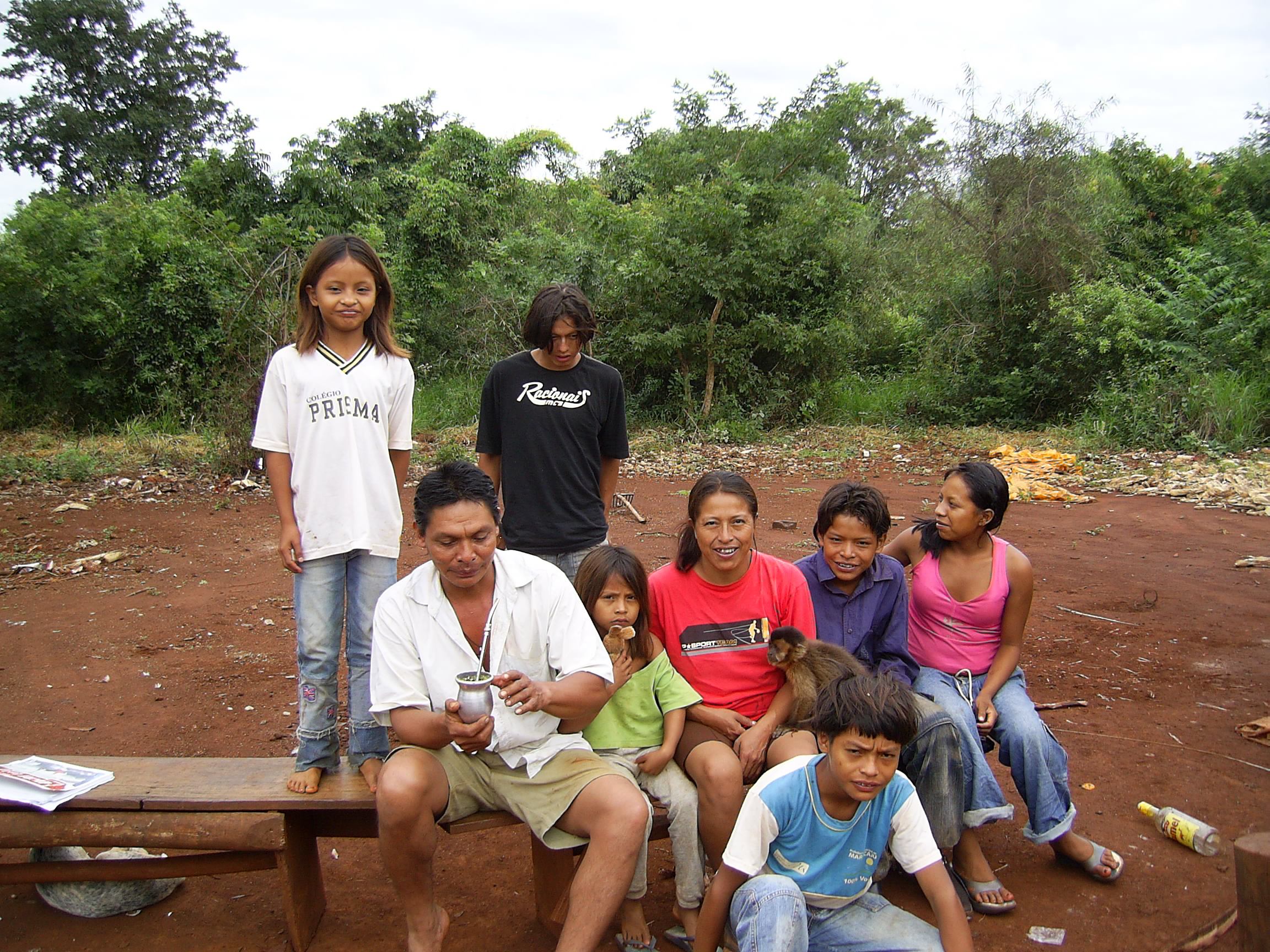 Guarani nuclear family of Mato Grosso do Sul, Brasil